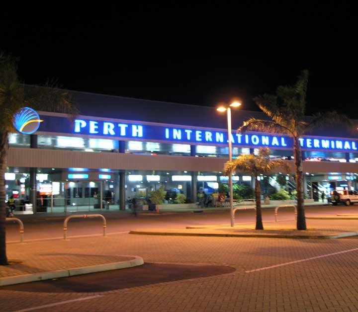 This is an image I took myself using an Olympus C8080W digital camera. It shows Perth International Airport at night.